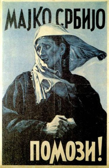 Painting based on the picture of Serb female refugee escaping from Ustaše crimes in Bosnia to Serbia during WWII